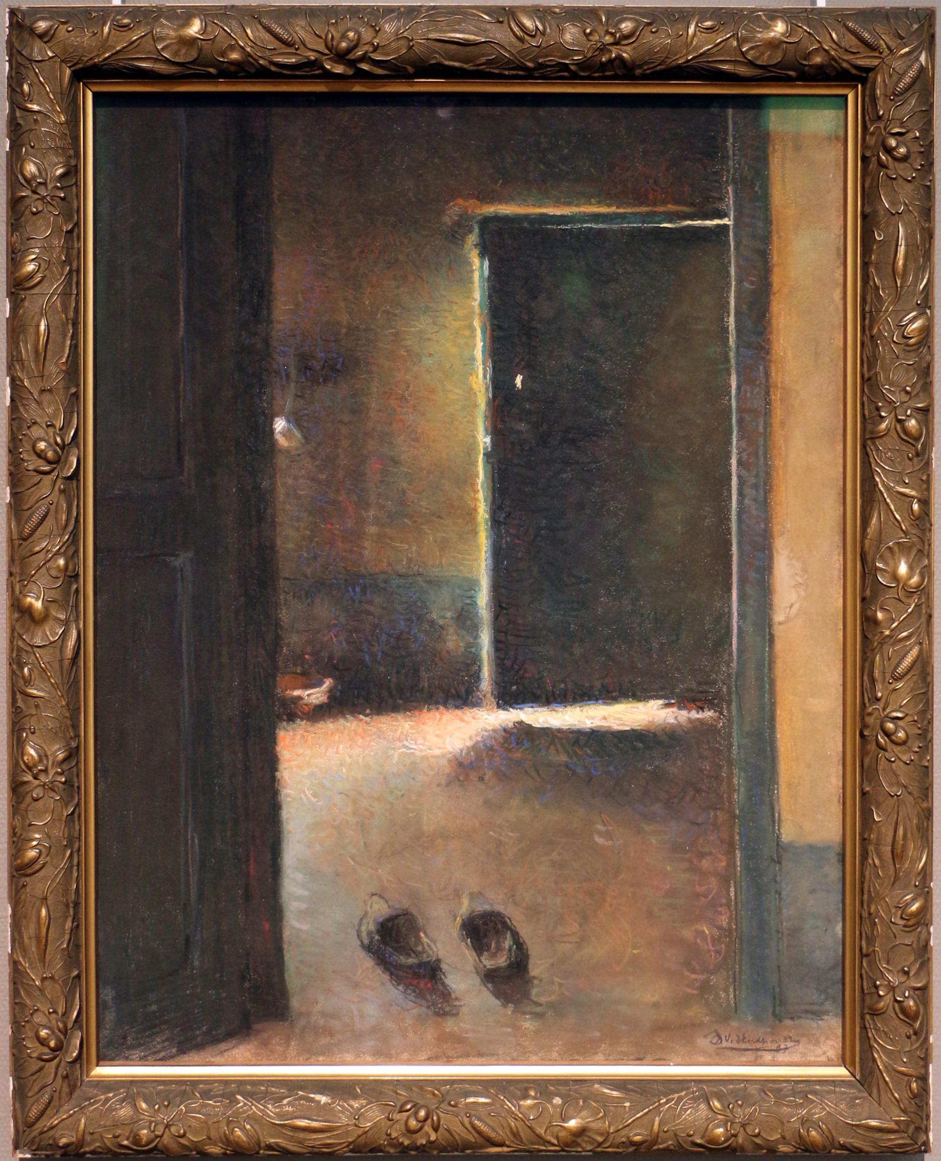 Museum of Ixelles